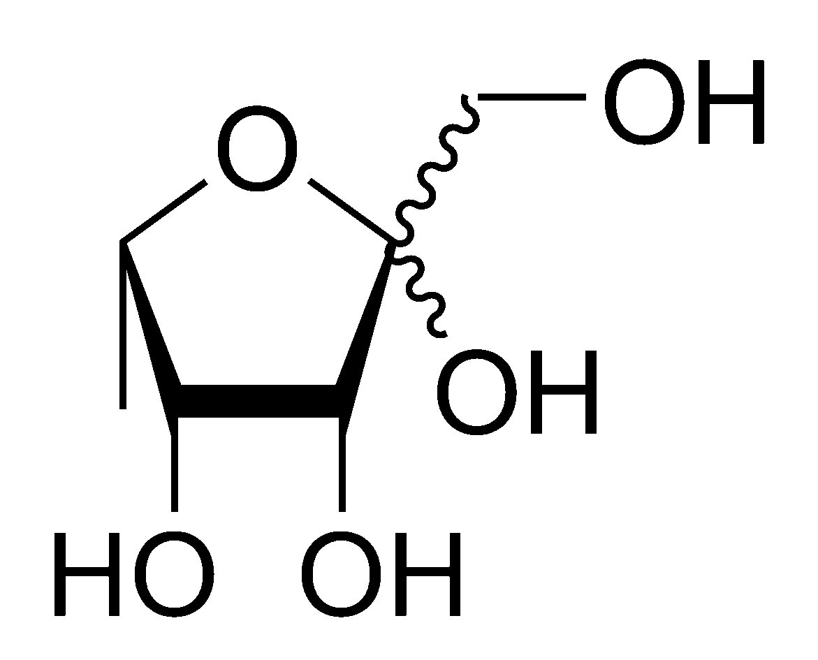 Chemical structure of Fuculose